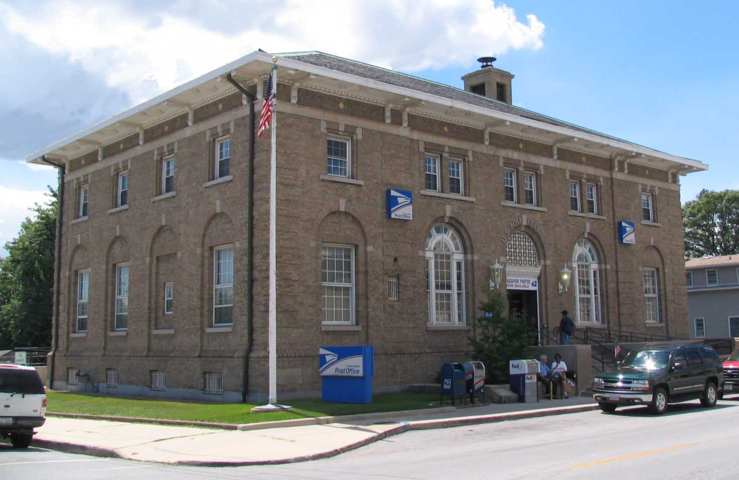 Post Office in Blue Island IL, built 1914, Oscar Wenderoth, architect